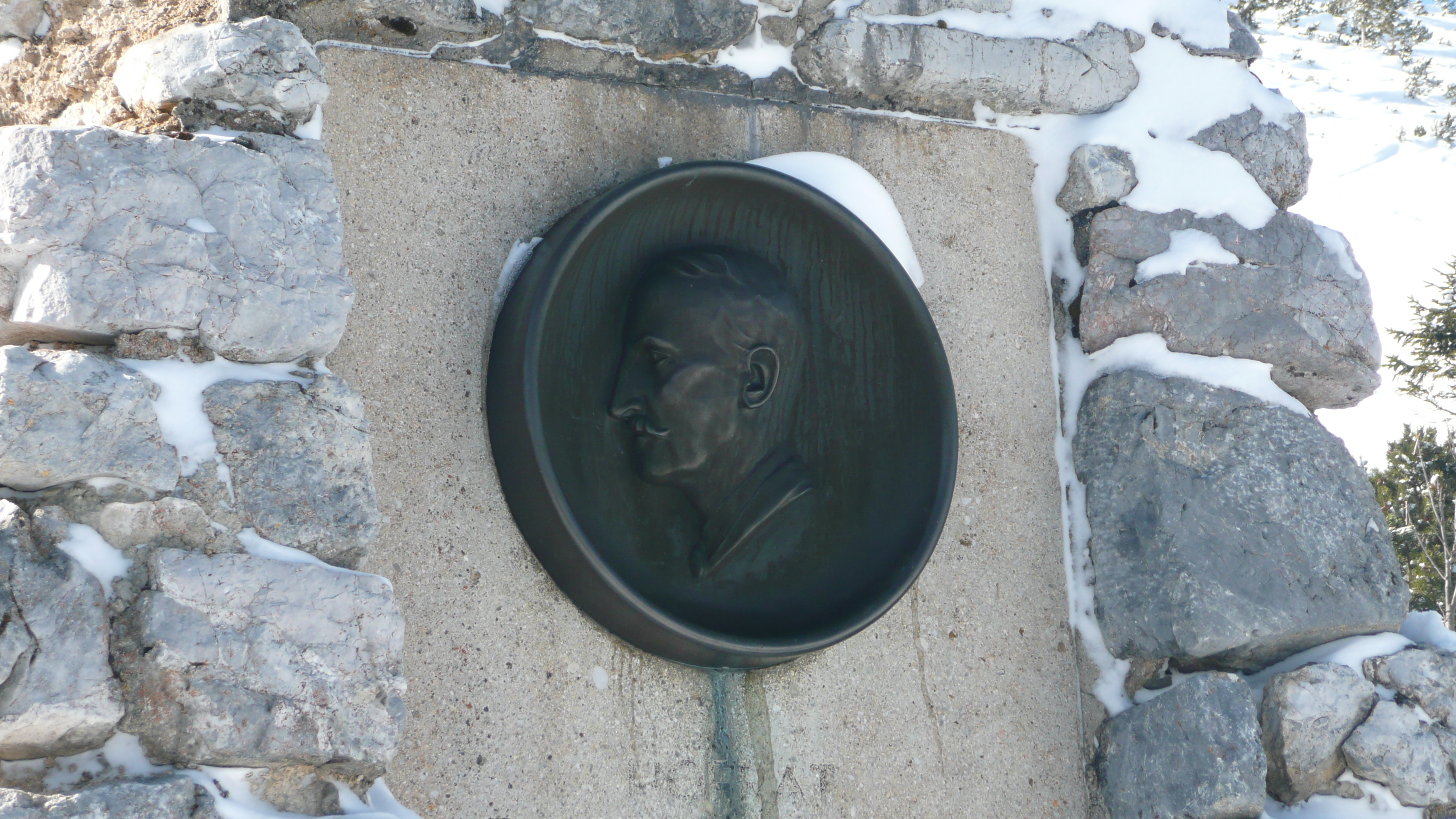 Dr. Fritz Benesch Memorial at Raxalpe near Otto house